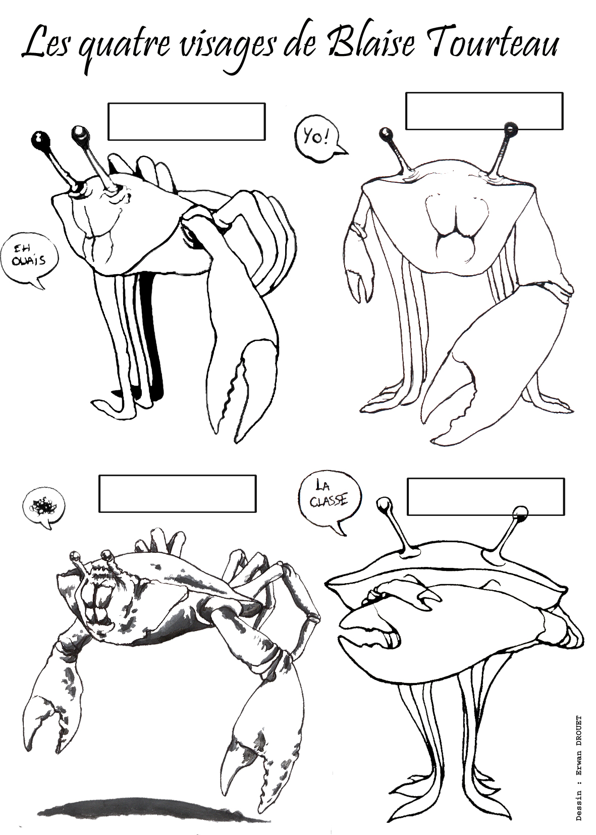 Comic book page the four faces of Blaise Tourteau